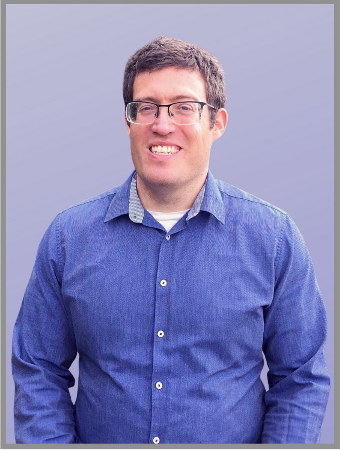 Prof Shai Dothan